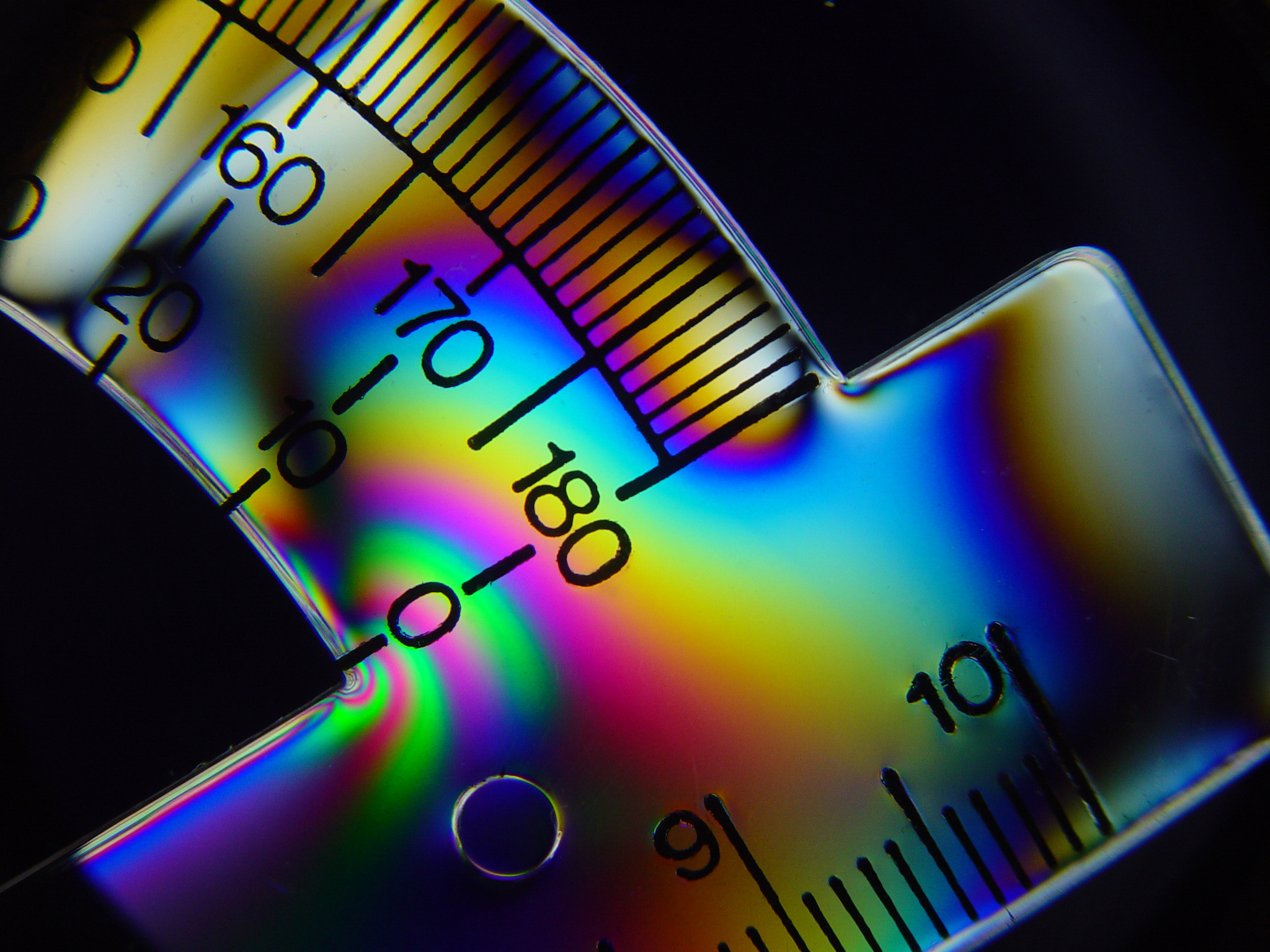 Tension lines in plastic protractor seen under cross polarized light. When a ray of plane polarised light is passed through a photoelastic material, it gets resolved along the two principal stress directions and each of these components experiences different refractive indices. The difference in the refractive indices leads to a relative phase retardation between the two component waves. The birefringence of the plastic layer shows colored fringes. Also called Photoelasticimetry or photoelasticity. Not seen does not mean No difference. WYSIATI